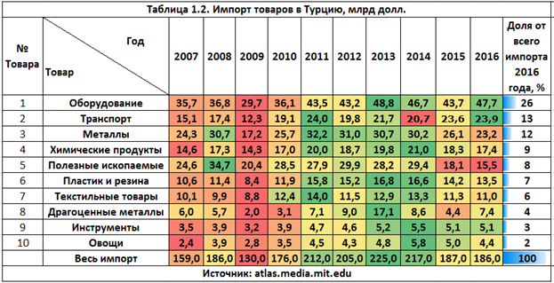 Imports structure of Turkey